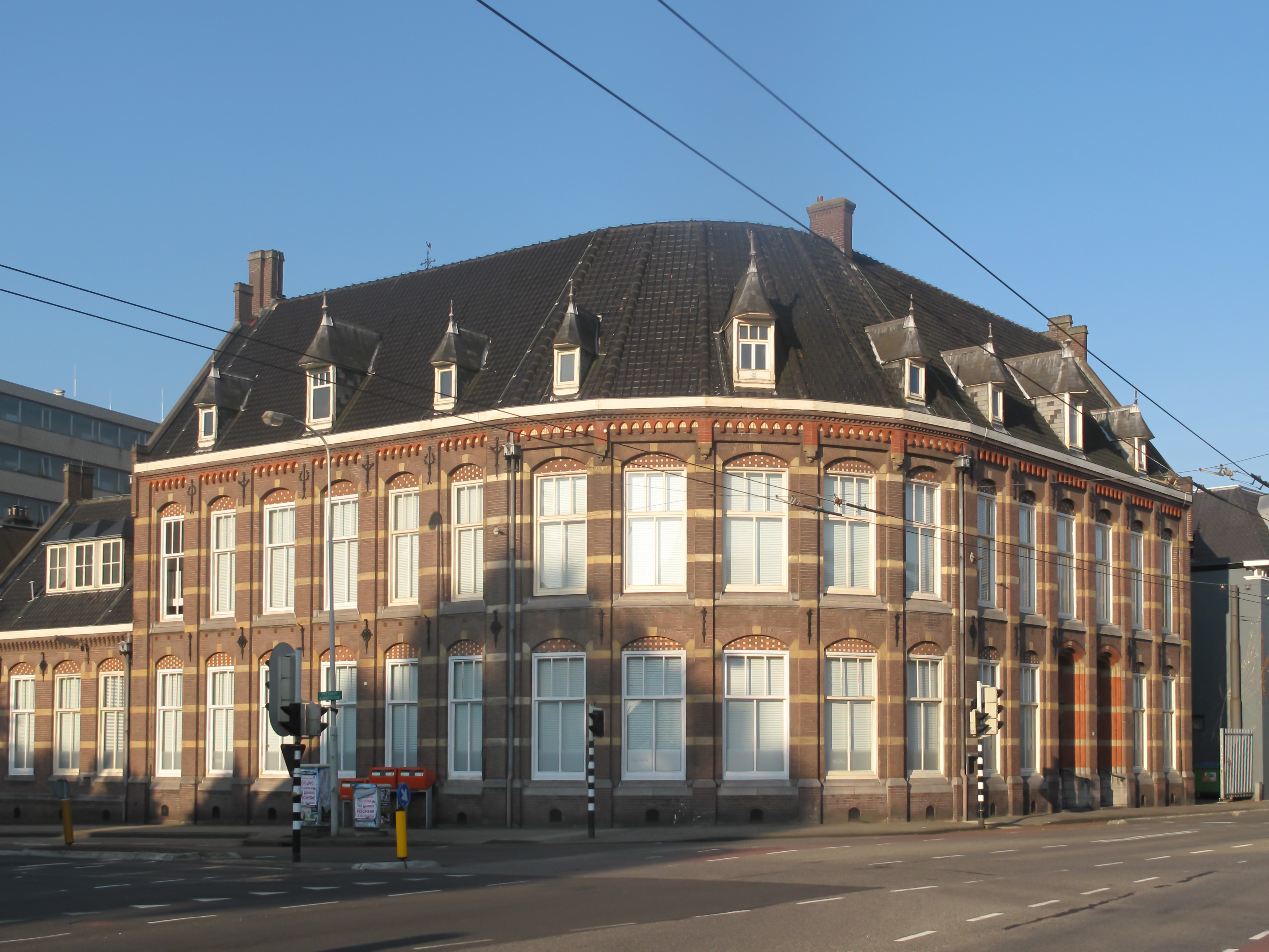 Velp, monumental office building Hoofdstraat 29 RM519421